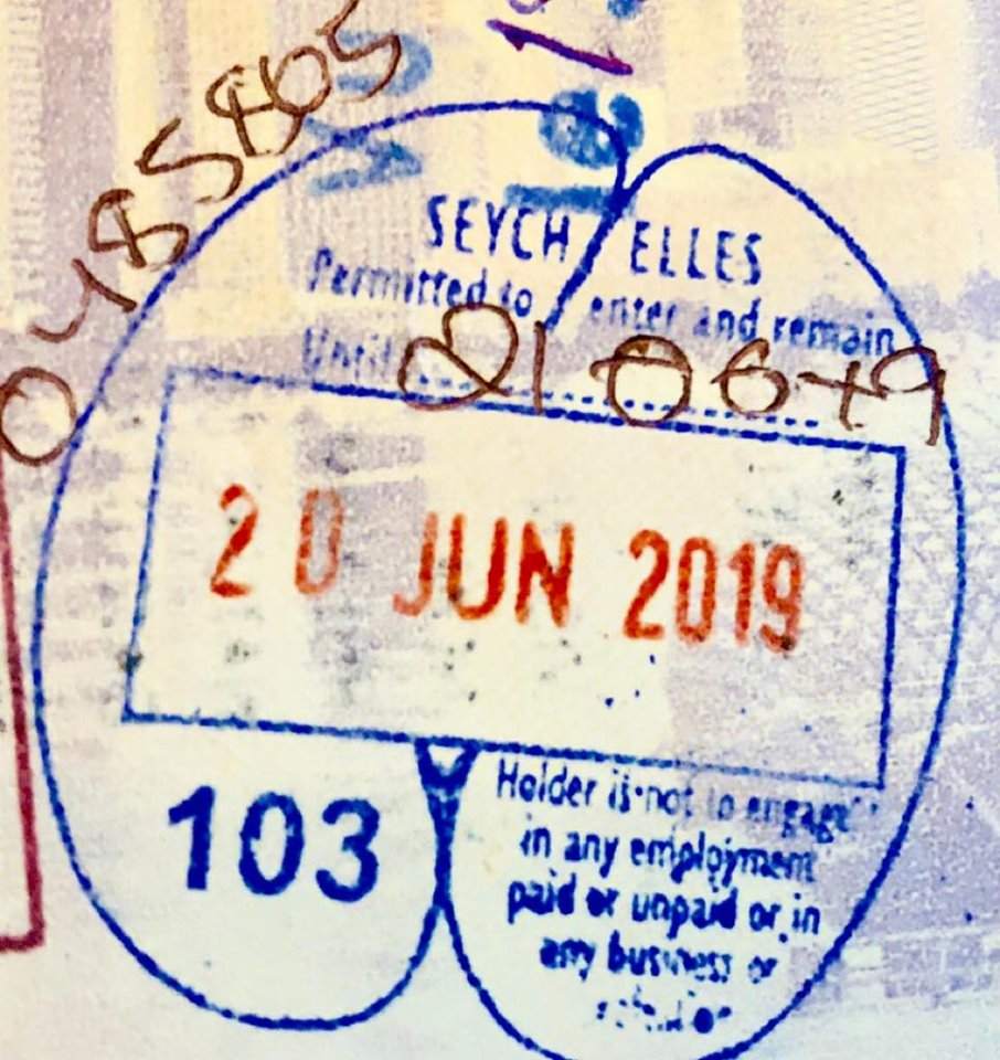 SeychellesEntry